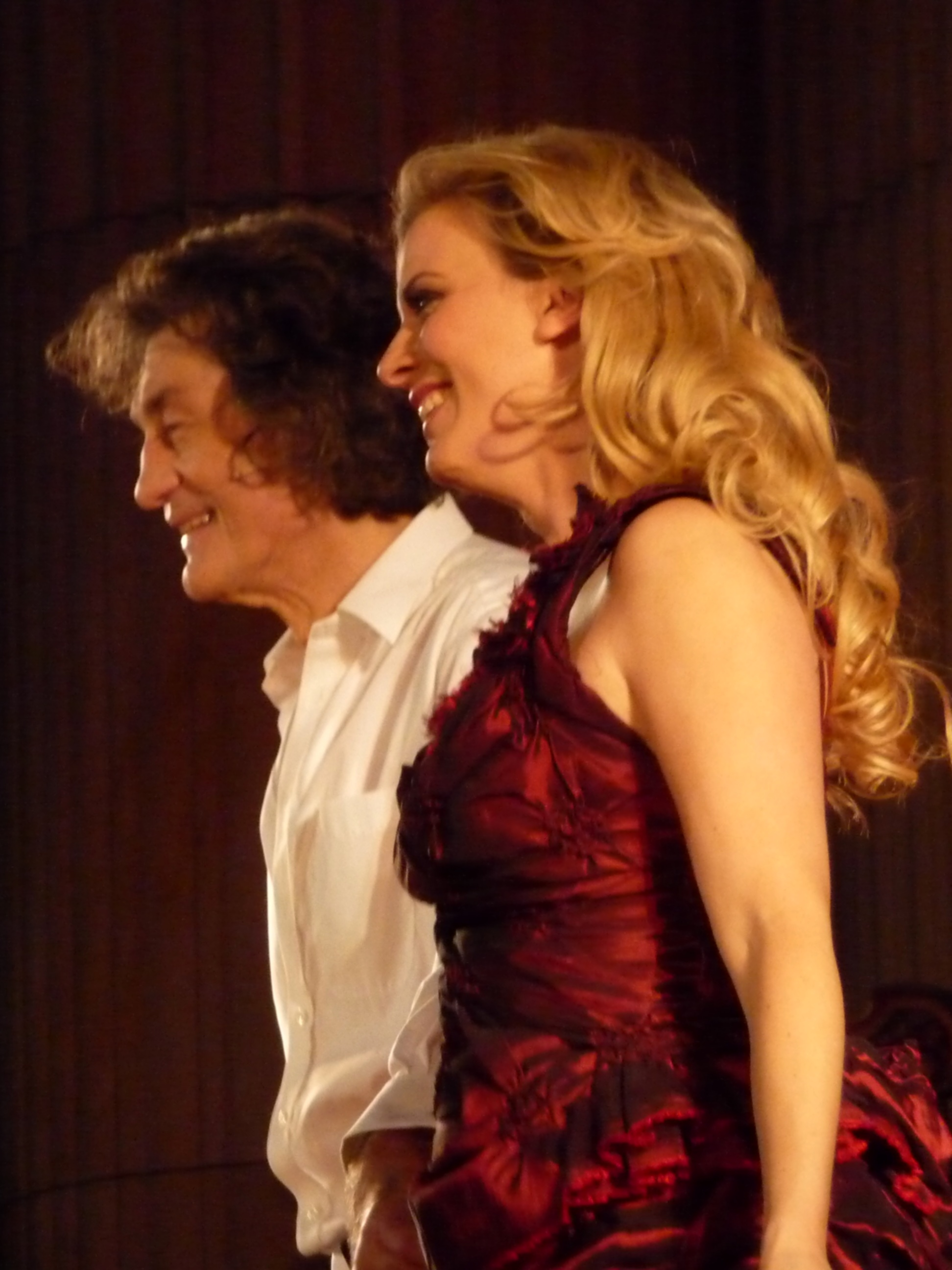 Scene from Hugo von Hofmannsthal's "Jedermann" with German actors Winfried Glatzeder and Eva Habermann, Berlin Cathedral, Germany